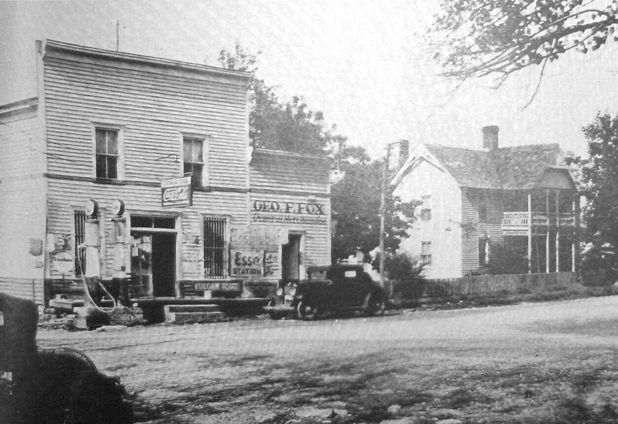 The "heart of the Loyston community" in Union County, Tennessee, USA, photographed before the community was inundated by Norris Lake later in the decade. The picture shows George Fox's filling station and general store, and a house.